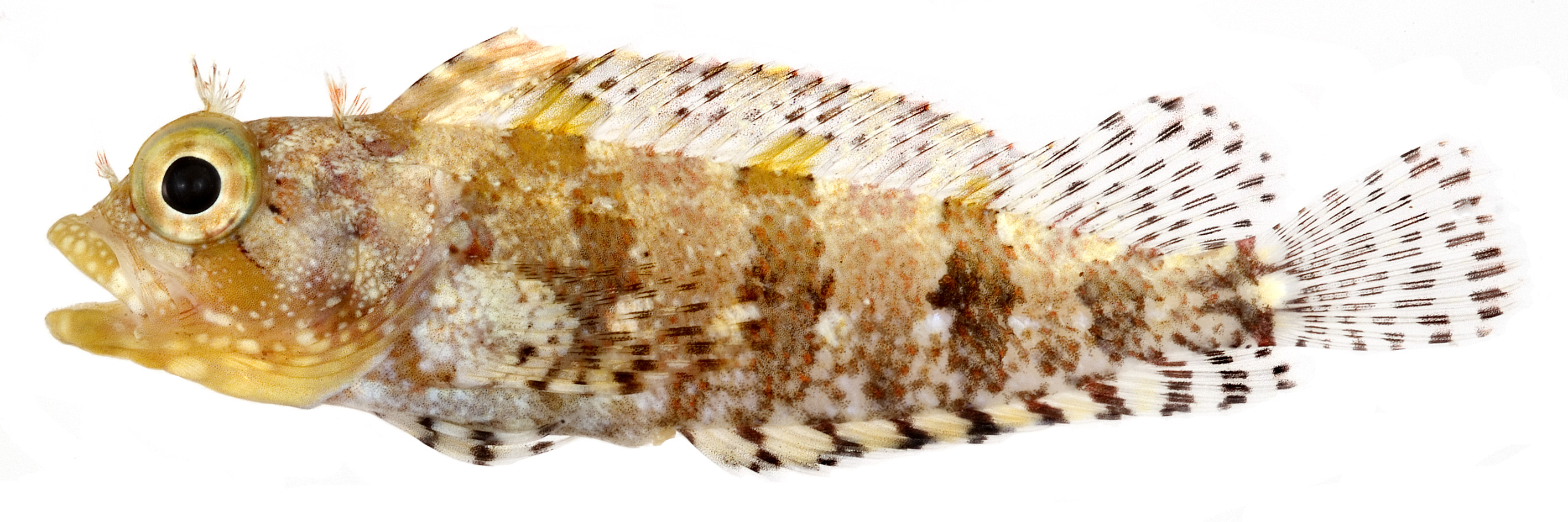 Description: The standard length of the adult puffcheek blenny is thirty-three millimeters. This image was taken with a Fujifilm FinePix S3 Pro 12.3-megapixel camera with a 105- millimeter f/2.8D AF Micro-Nikkor lens and dual Nikon SB28 flash units. Creator/Photographer: Belize Larval-Fish Group 2005 The Division of Fishes of the Smithsonian's National Museum Natural History has sent several teams to Belize in order to photograph larvae in the field. The 2005 team included Julie H. Mounts and Carole C. Baldwin from April 20 through 27; Mounts, David G. Smith, and Lee A. Weigt from April 27 through May 4; and Smith and Weigt from May 4 through 11. Medium: Digital photograph Geography: Belize Date: 2005 Persistent URL: Repository: National Museum of Natural History, Division of Fishes Image ID: P-423, DMSO 5380